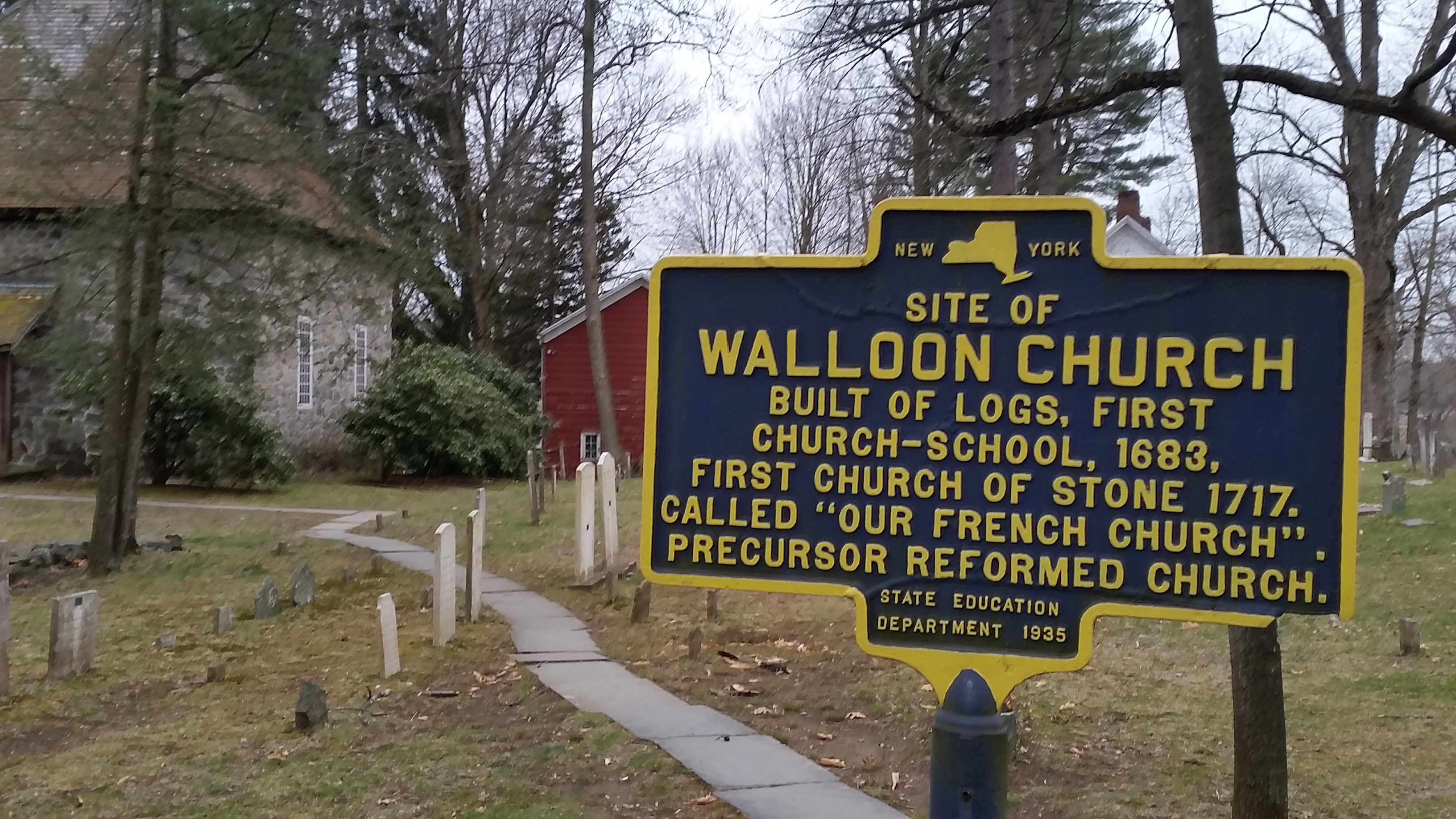 NY State Historic Marker at New Paltz's Huguenot Street Historic District for the Walloon church